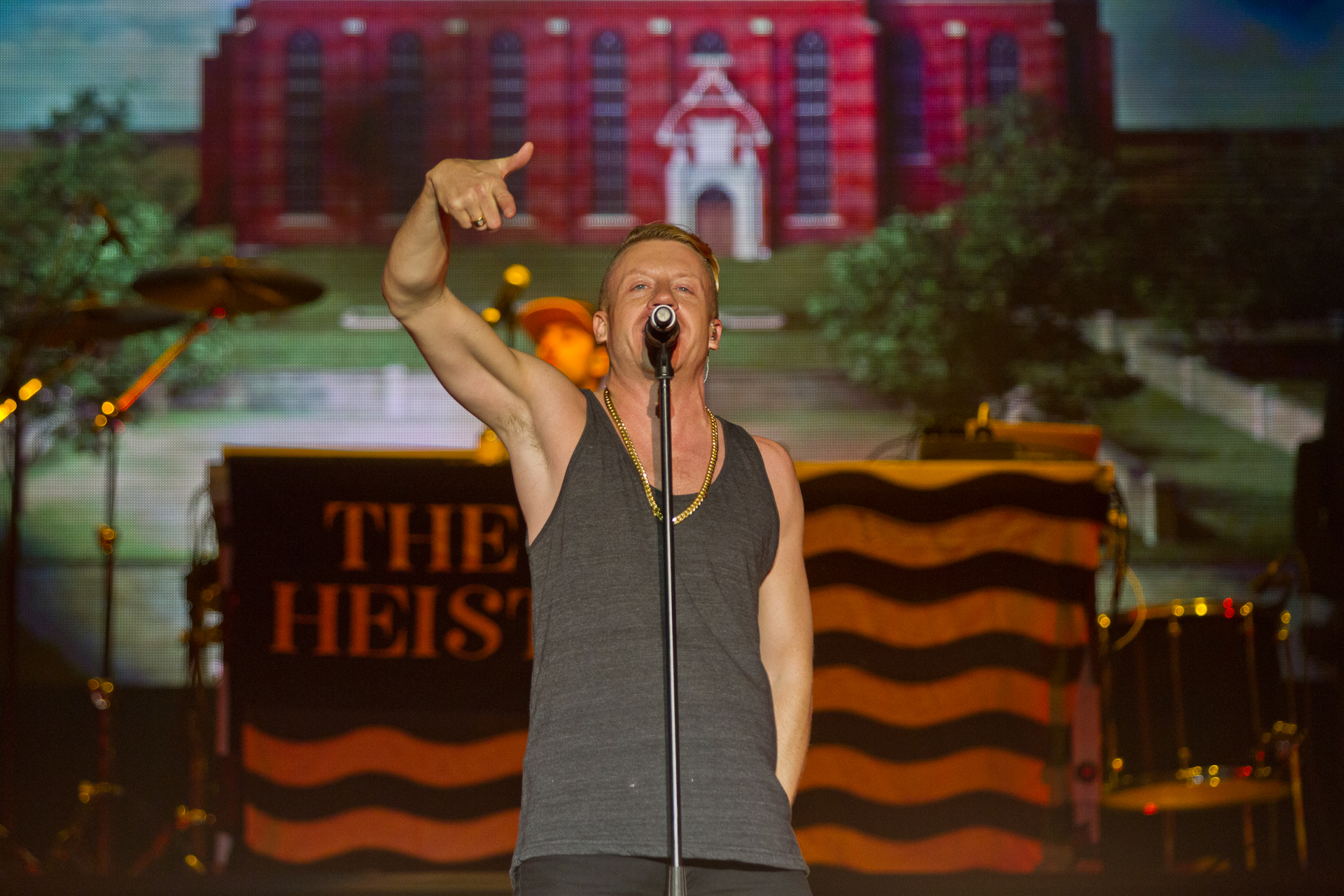 Macklemore at Southside Festival 2014 in Neuhausen ob Eck